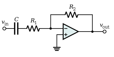 A diagram of a very simple active highpass filter using an opamp with an RC network in the feedback path.